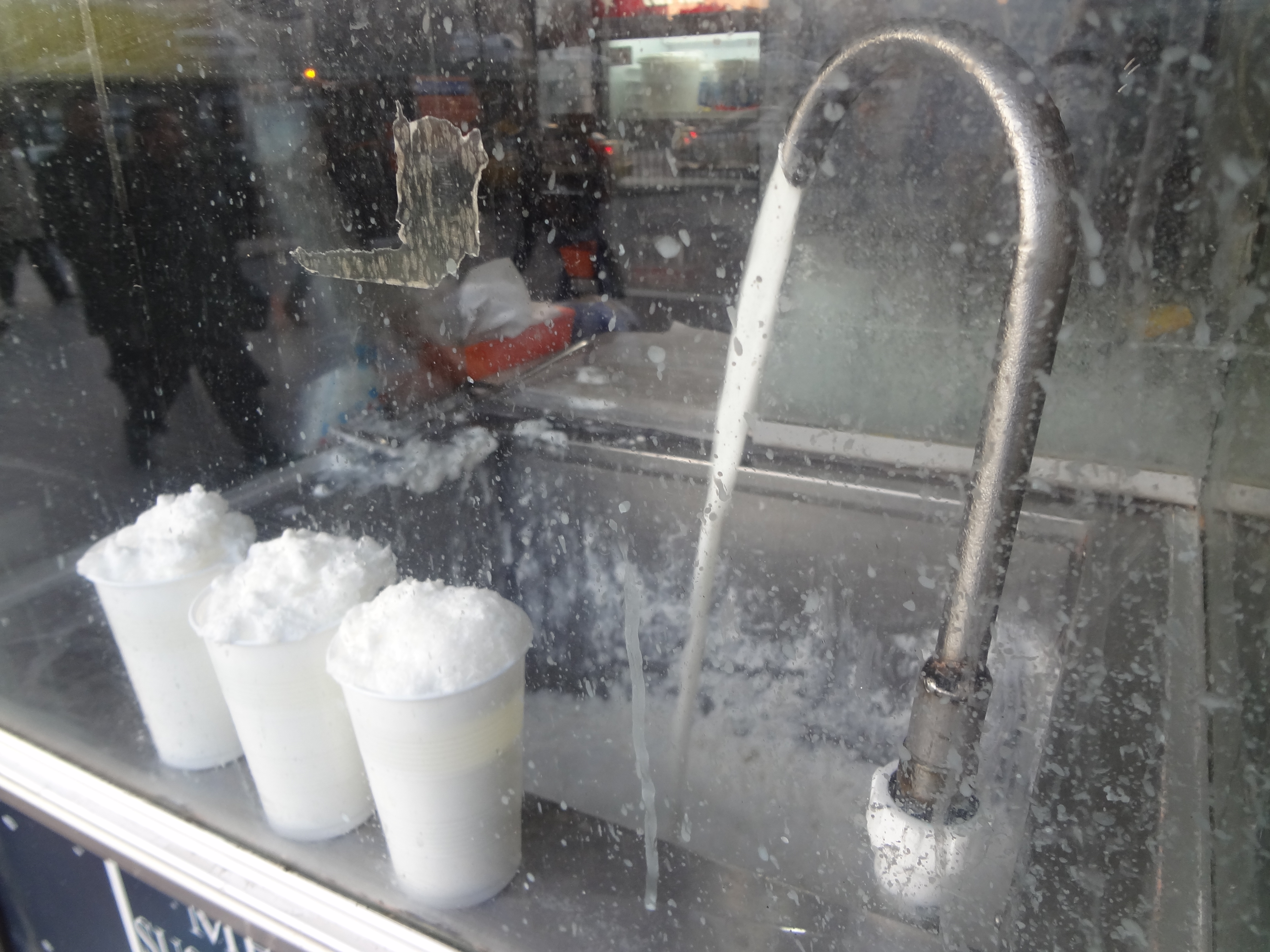 Pouring Ayran at a turkish boutique in Istanbul, Turkey